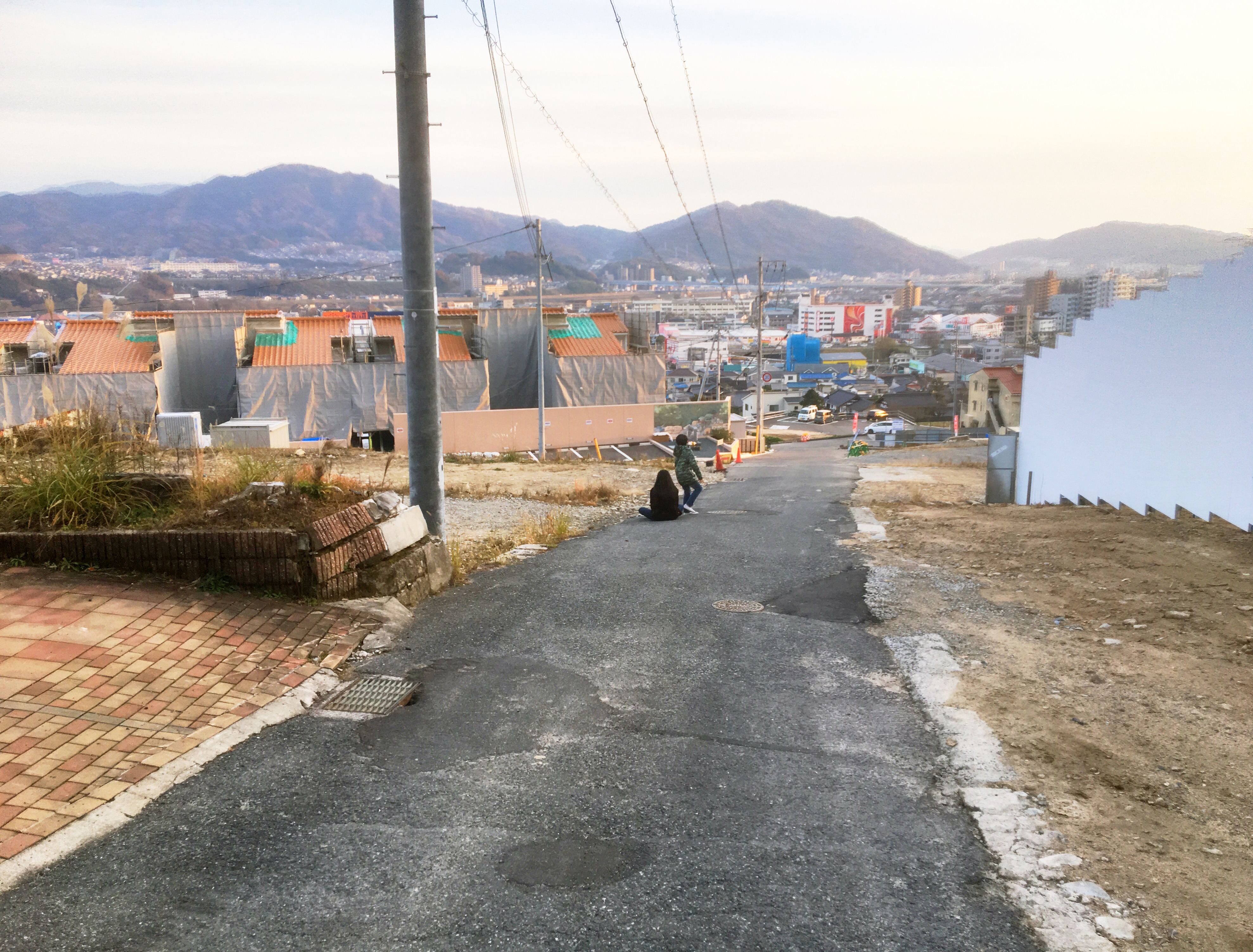 Reconstruction works of affected areas due to torrential rain in Hiroshima City Yagi district in August 2014